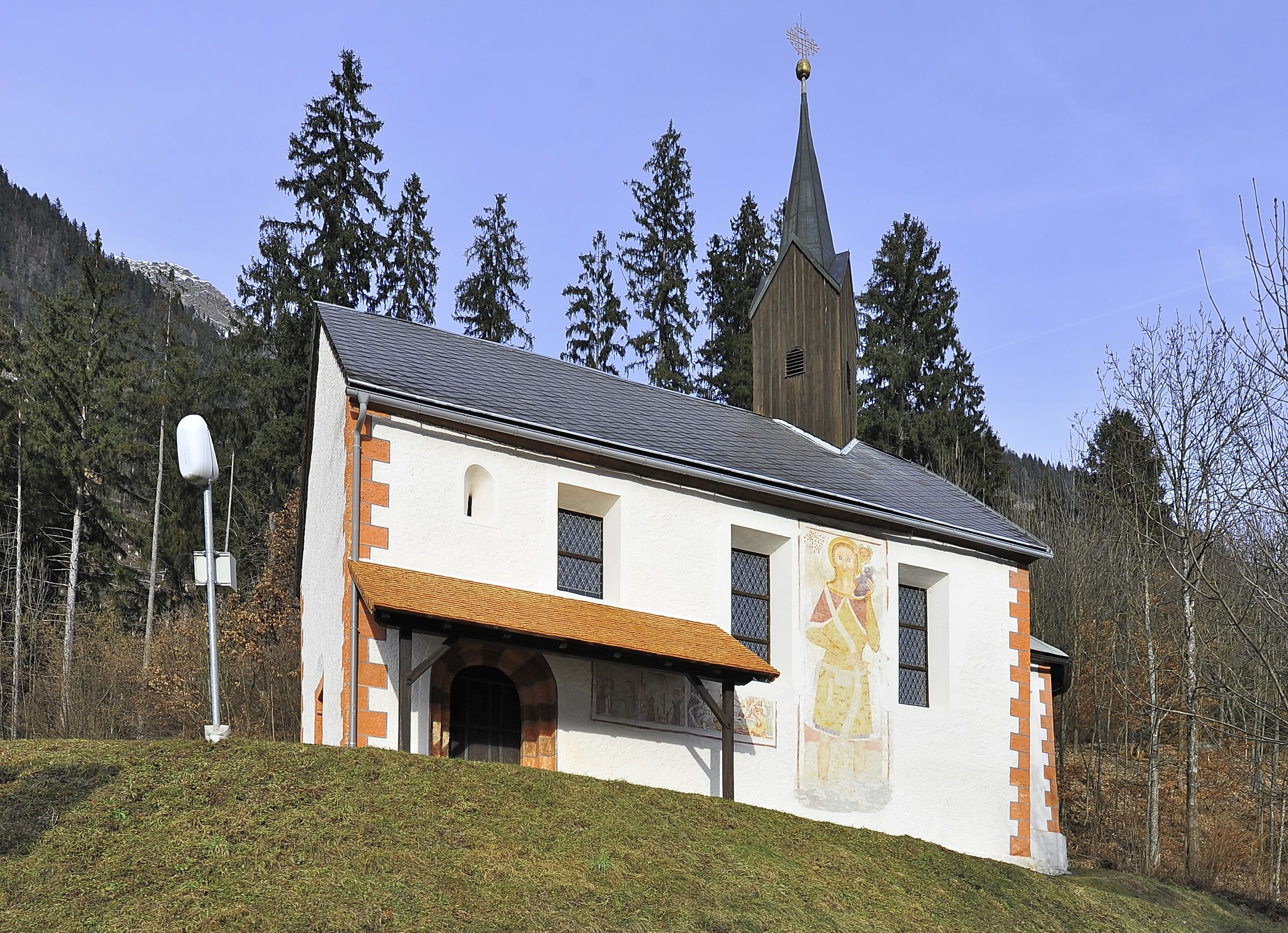 Subsidiary church Saint George at Gerlamoos, municipality Steinfeld, district Spittal an der Drau, Carinthia / Austria / EU